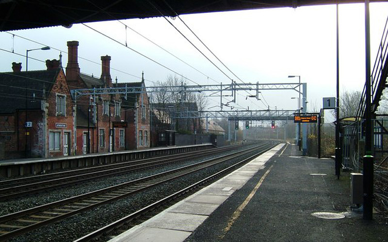 Atherstone Railway Station After being closed to passengers for a numbers of years the station was reopened in December 2008 with hourly services to London and Crewe. The Victorian era station building on Platform 2 on the left are now used a veterinary surgery.